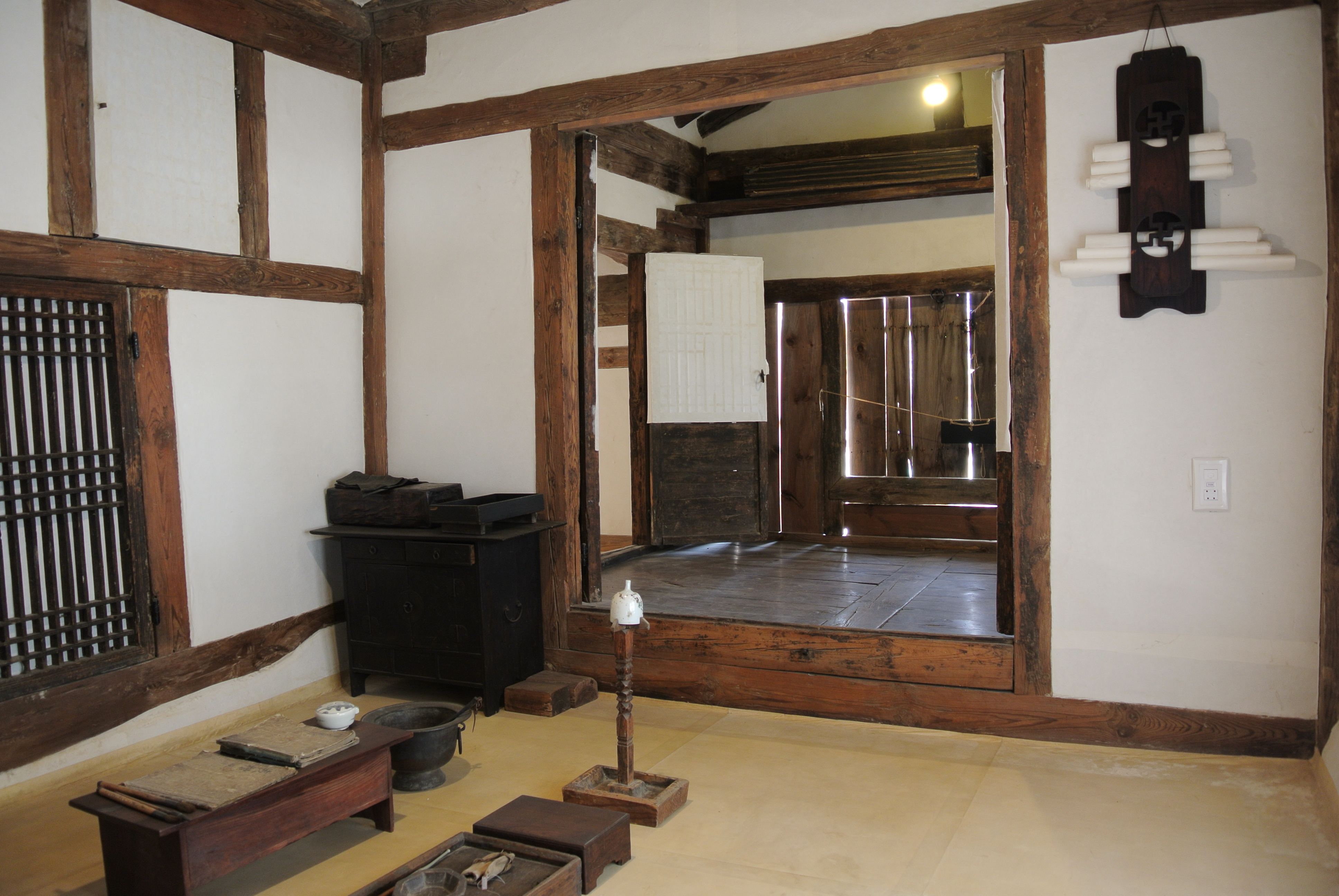 Interior of a traditional Korean house, National Folk Museum, Seoul. Possibly a sarangbang (사랑방), a man's room used as a study.